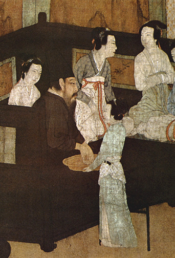 Close-up detail of the Chinese painting Night Revels, handscroll, ink and colors on silk, 28.7 x 335.5 cm.